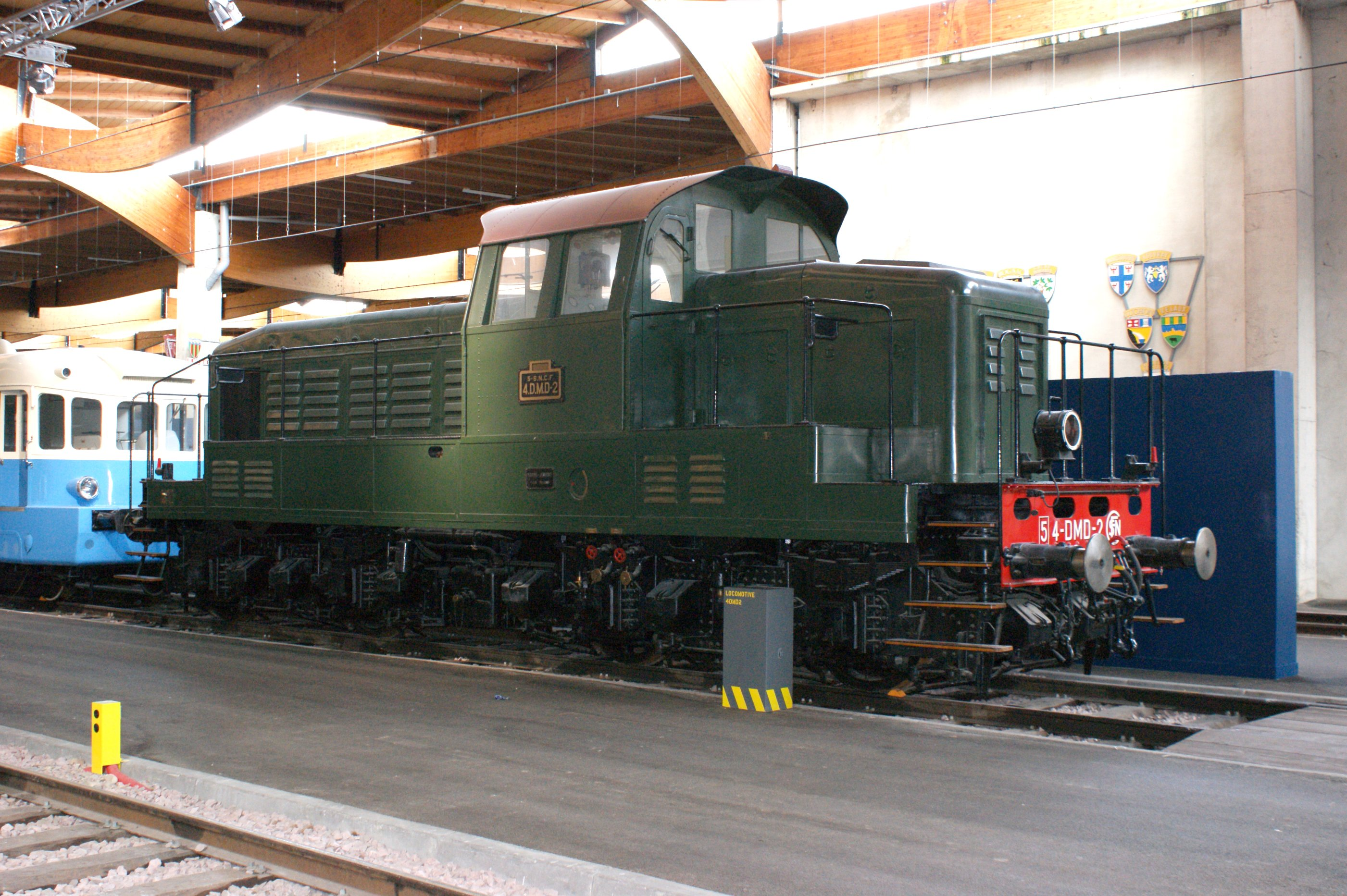 PLM CCM-Jeumont Class "4-DMD-2" prototype 590 hp B-Bo No.4-DMD-2 (SNCF No.BB 60032) built 1938. At the SNCF Museum, Mulhouse, 3/09.